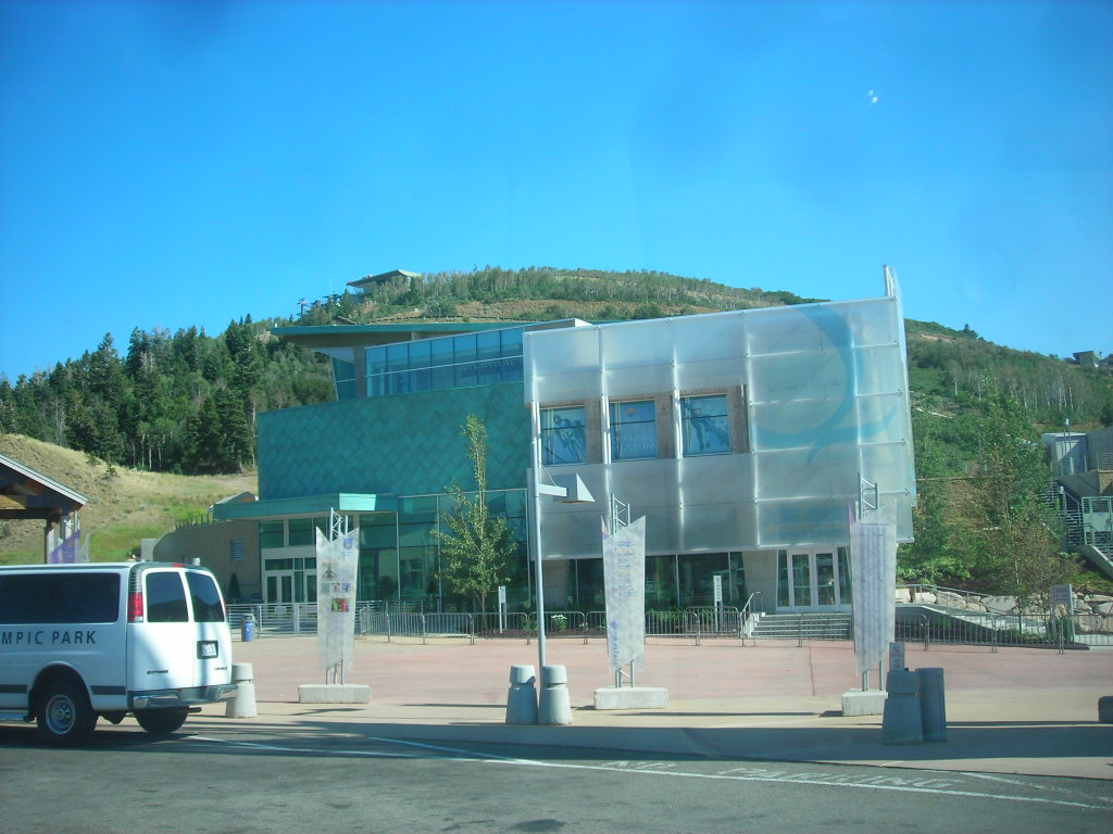 The Salt Lake 2002 Olympic Winter Games Museum and the Alf Engen Ski Museum at the Utah Olympic Park in Park City, Utah.